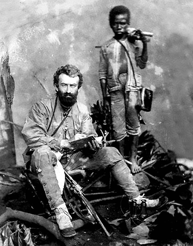 Myklukha-Maklai Mykola Mykolayovych, Malay Peninsula, 1874-75